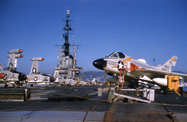 Aircraft of Carrier Air Group 17 (CVG-17) aboard the carrier USS Franklin D. Roosevelt (CVA-42) during that carrier's deployment to the Mediterranean between July 1957 and March 1958. A Douglas F4D-1 Skyray (BuNo 134870) of Fighter Squadron 74 (VF-74) "Be-Devilers" is visible on the right. On the left are McDonnell F2H-3 Banshees of VF-171 "Aces". The aircraft wear the tailcode "AL" which was used for CVG-17 only during that deployment.